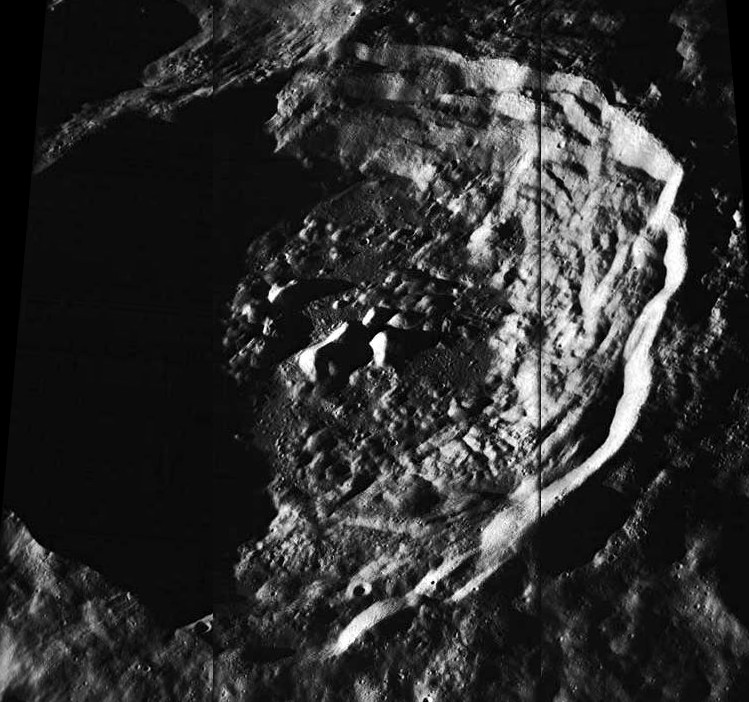 Oblique view of Sharonov crater, on the moon. Approximate north at top.